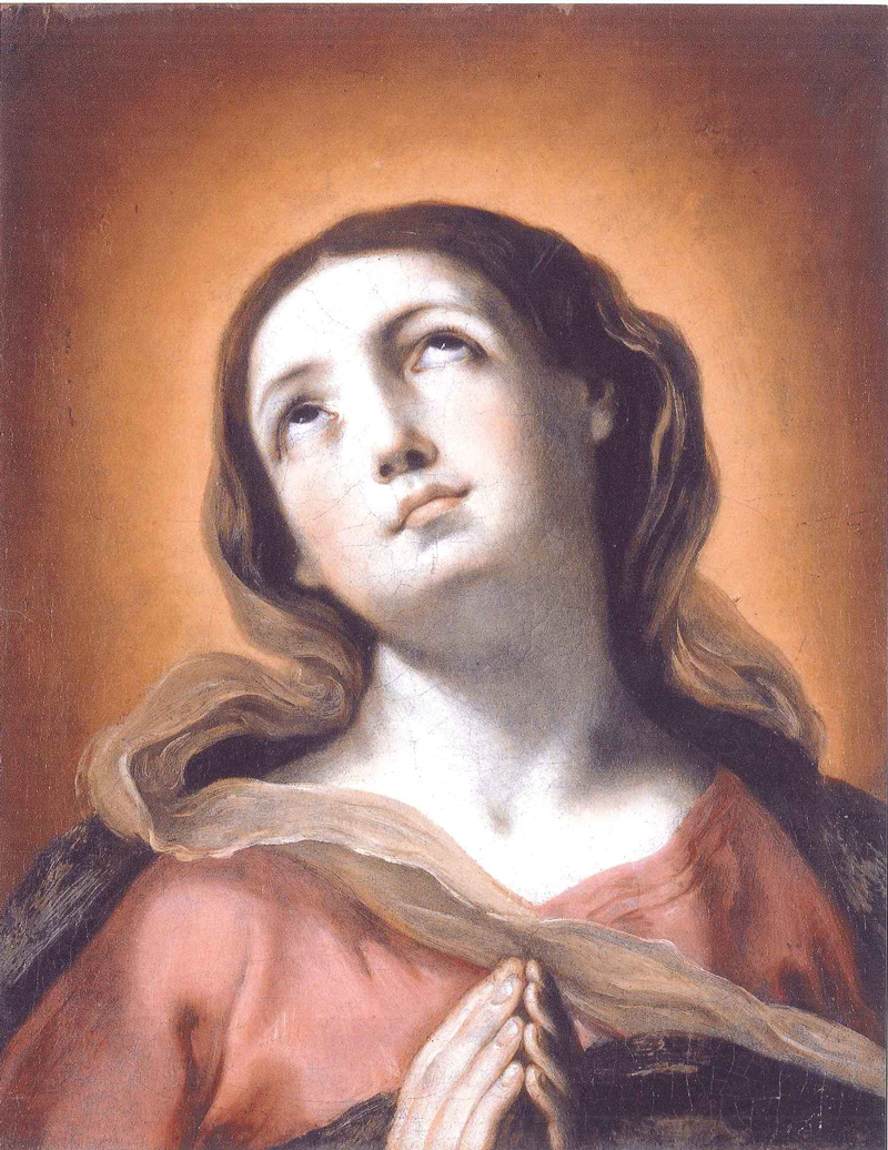 Vergine in preghiera - Olio su tela. 50 x 40 cm, 1627 ca.